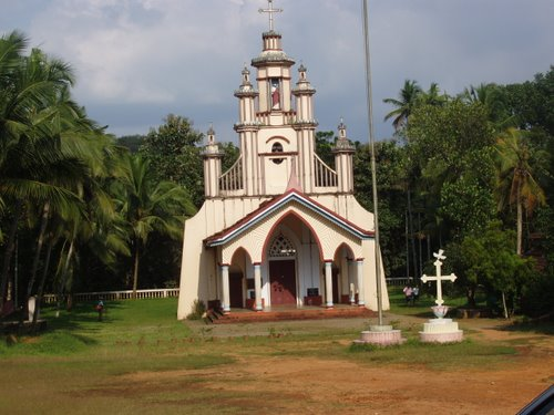 Anthiyalam